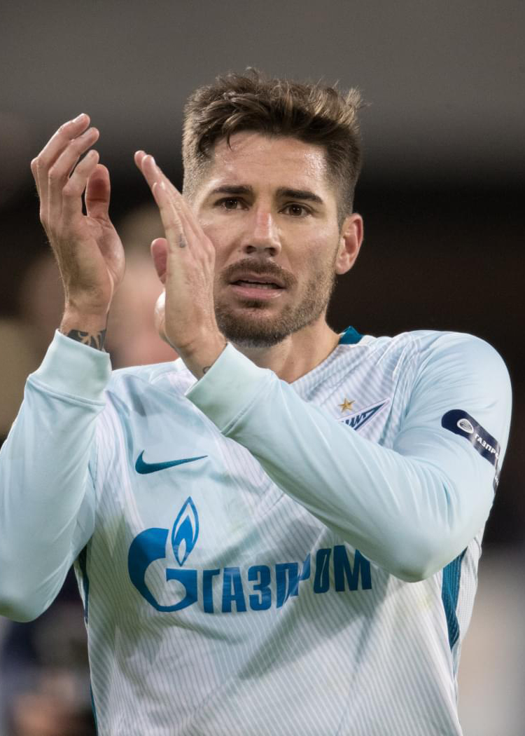 04.03.17. Россия, Москва, стадион «Арена ЦСКА». РОСГОССТРАХ-Чемпионат России, 18-й тур, матч ЦСКА — «Зенит». На снимке: Хави Гарсия, полузащитник ФК «Зенит».